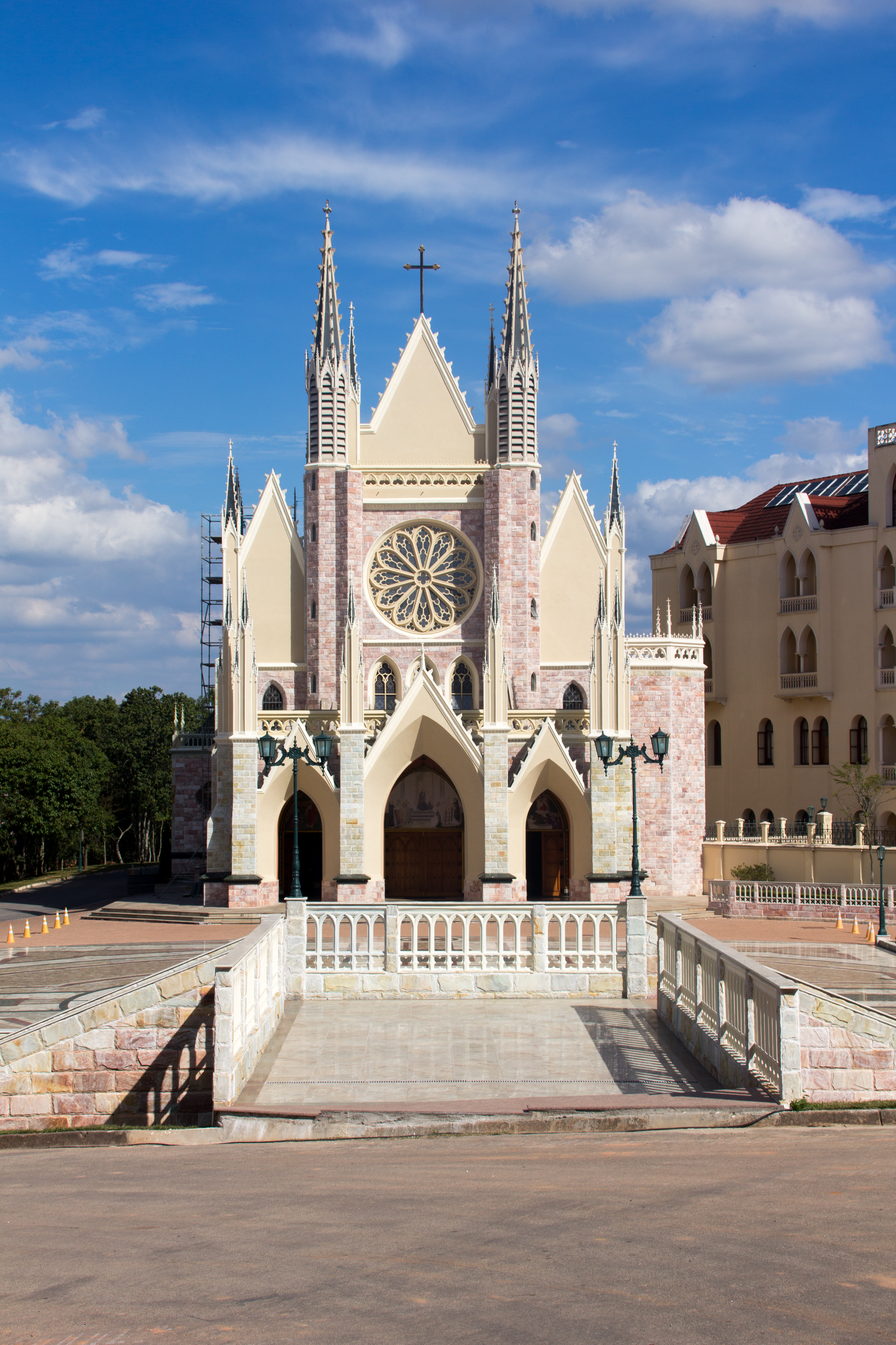 Basílica Menor de Nossa Senhora do Rosário, Cotia, São Paulo, Brazil Basilica de Nossa Senhora do Rosario de Fatima